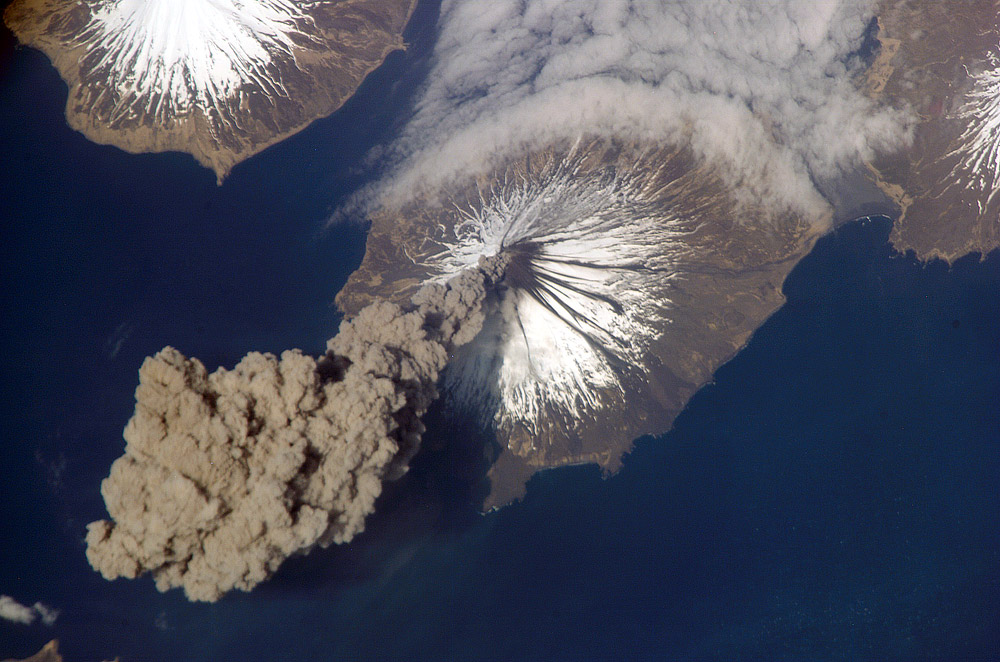 Astronaut photo of ash cloud from Mount Cleveland, Alaska, USA.